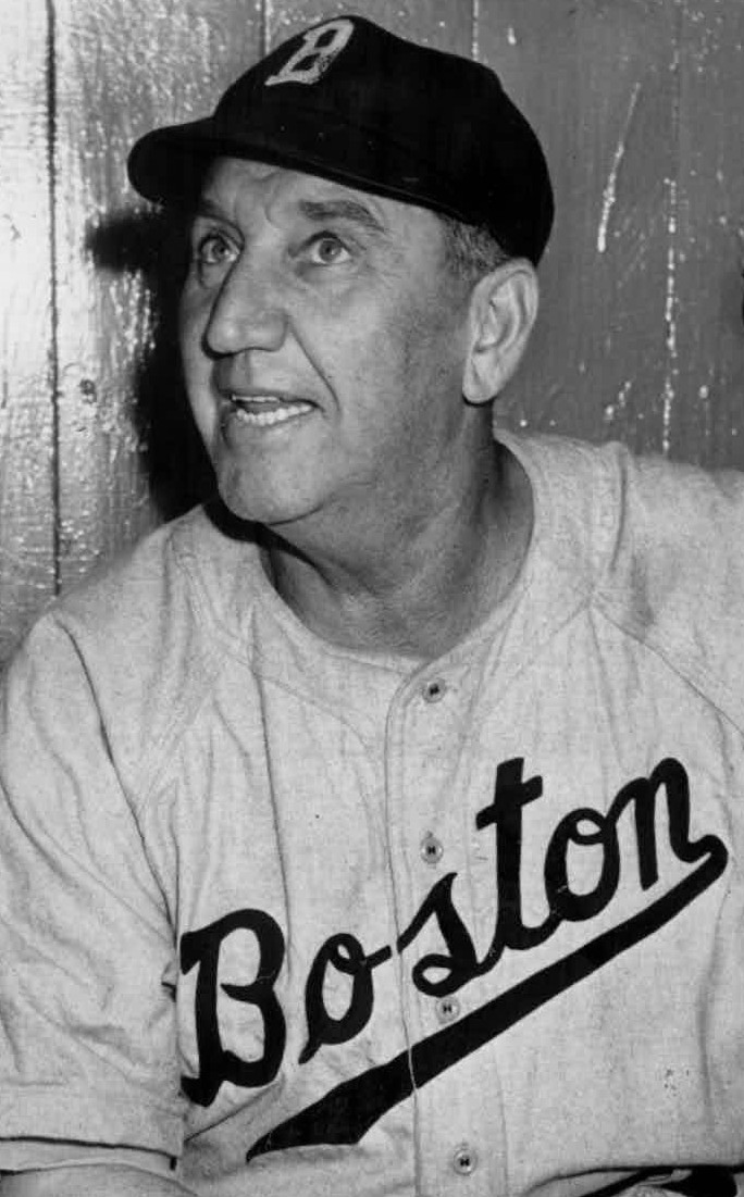 Professional baseball player and manager Bob Coleman